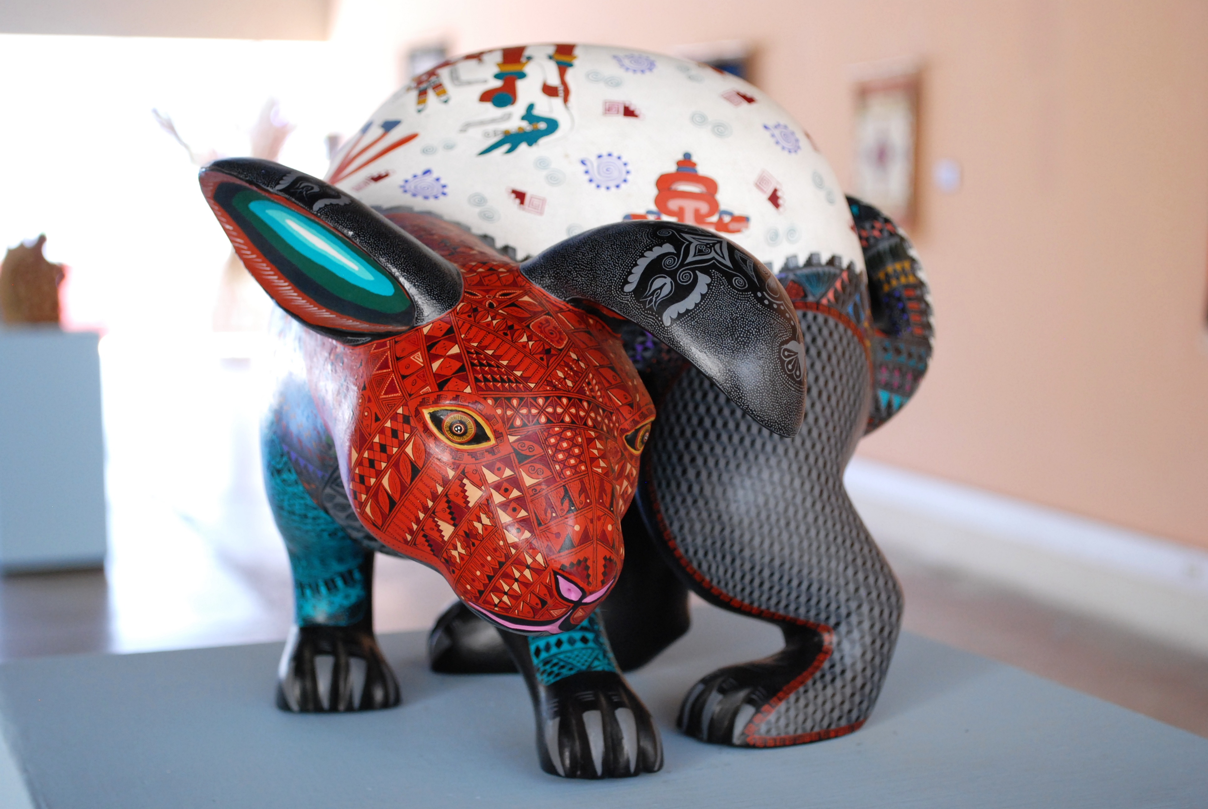 "Conejo Tostli" by Jacobo Angeles of San Martin Tilcajete at Museo Estatal de Arte Popular de Oaxaca in San Bartolo Coyotepec, Oaxaca, Mexico. See COM:CRT/Mexico#Freedom of panorama